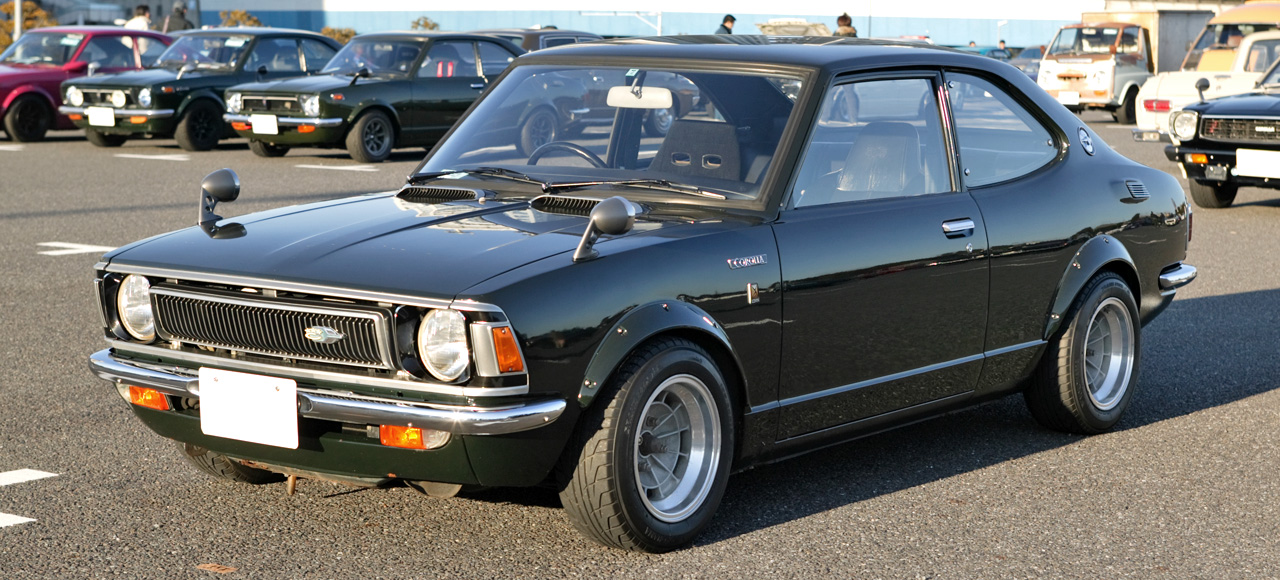 Toyota Corolla 2-door Coupe 1600 Levin ( TE27 )